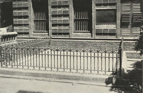 The size of the Black Hole was 22 ft. x 14 ft. and its probable height 16 ft to 18 ft. One hundred and forty-six human beings were forced into it on the night of June 20, 1756, by Suraj-ud-daulah, Nawab of Murshidabad; twenty-three only survived next morning.